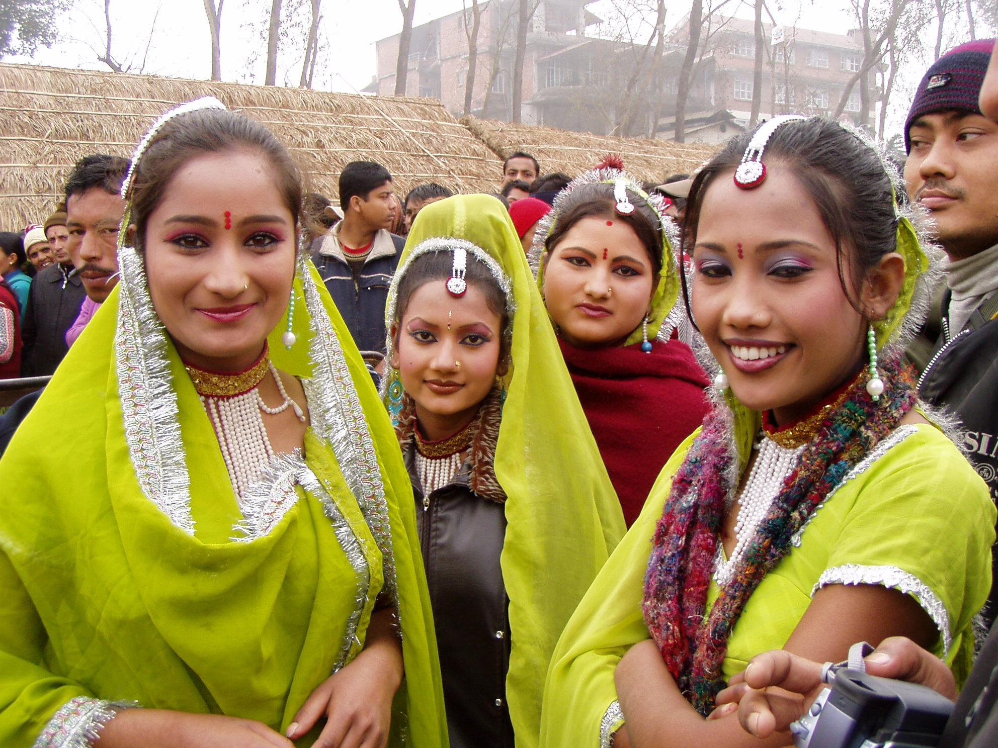 Dancers in Nepal